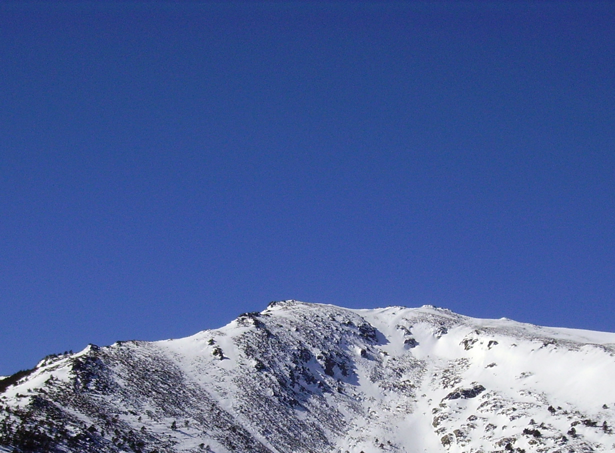 View of Asomate de Hoyos (2.242 m), Sierra de Gudarrama (Madrid)